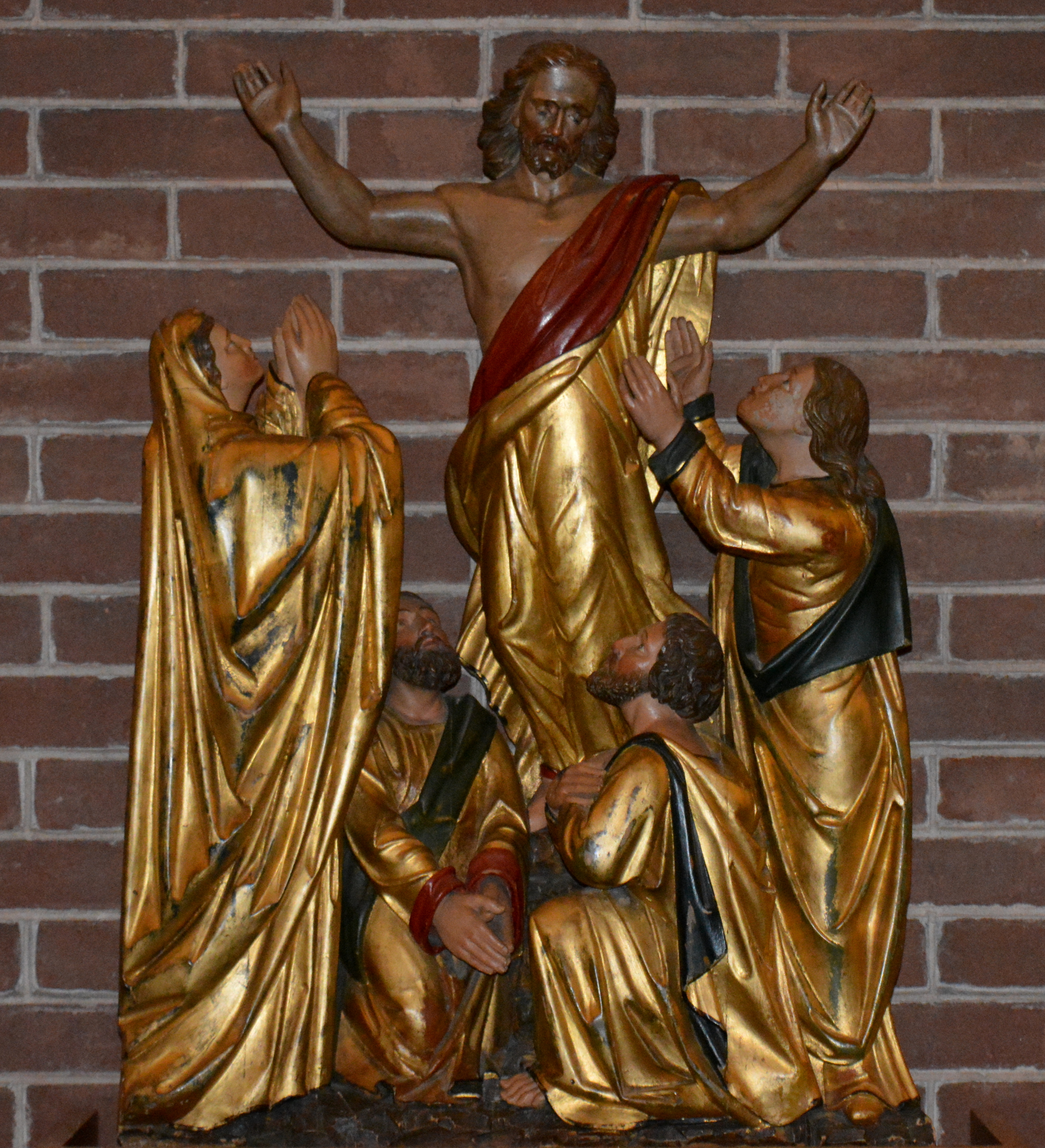 Ressurection